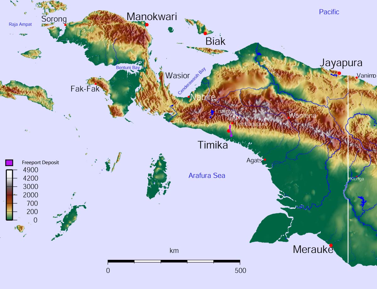 West Papua Topographic Map